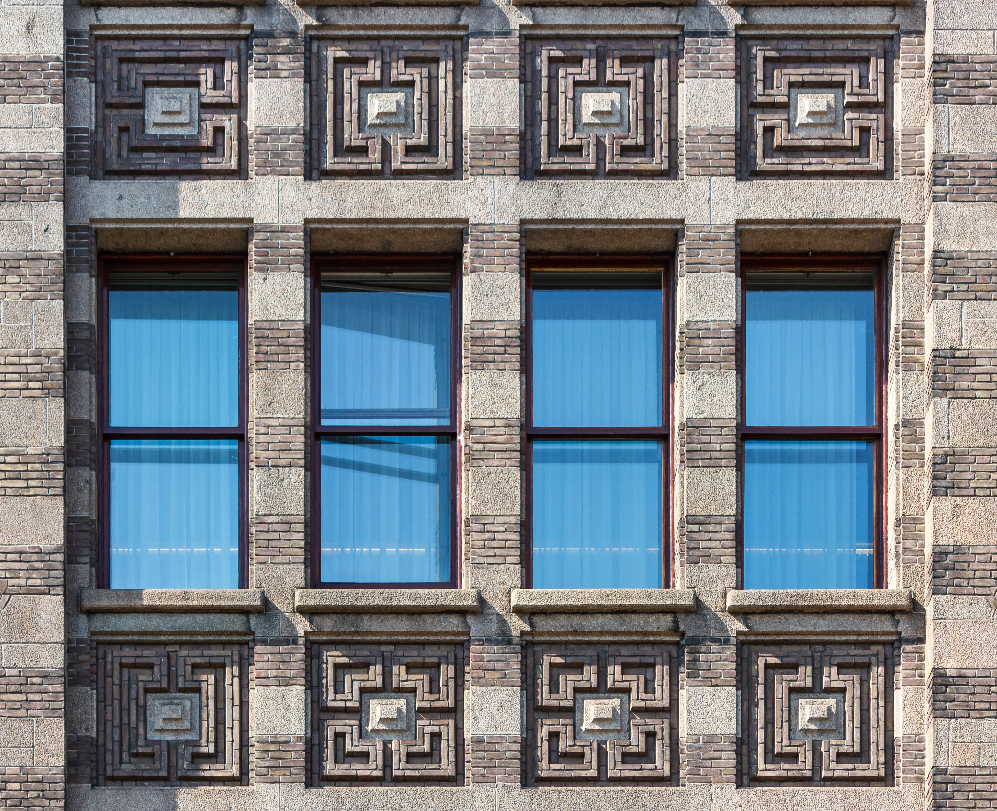 Window detail of De Bazel (Amsterdam City Archives) at Vijzelstraat, Amsterdam, the Netherlands